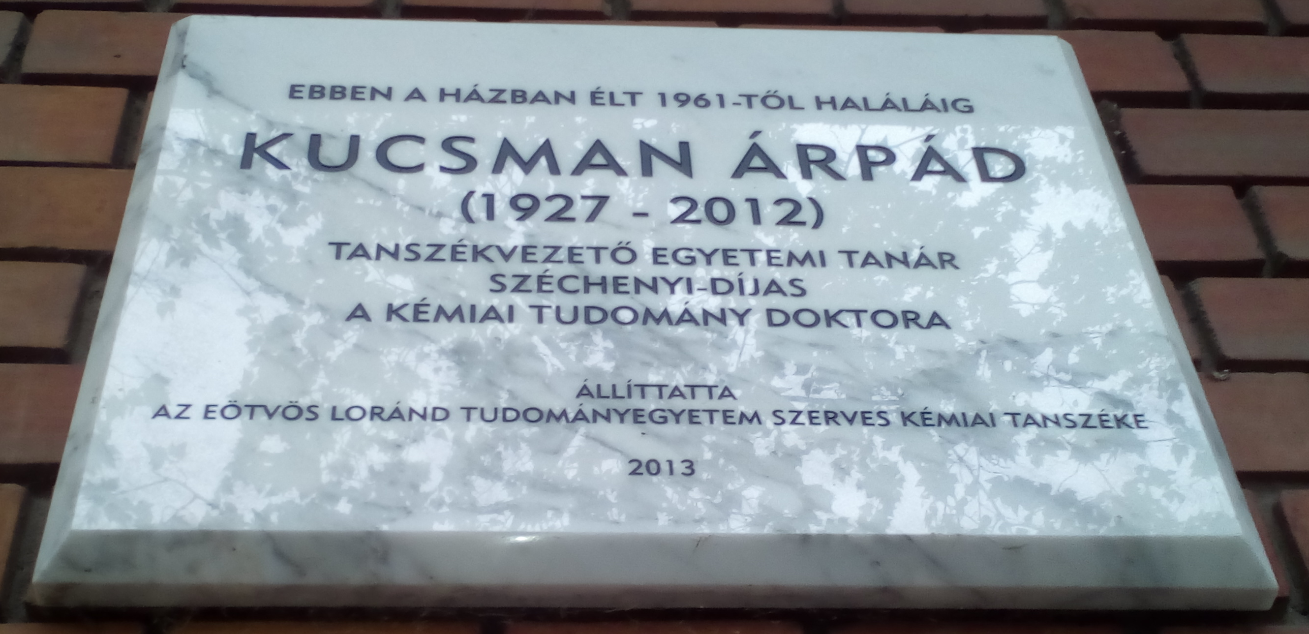 Árpád Kucsman commemorative plaque in Budapest District XI, Stoczek József Street No 17/b.